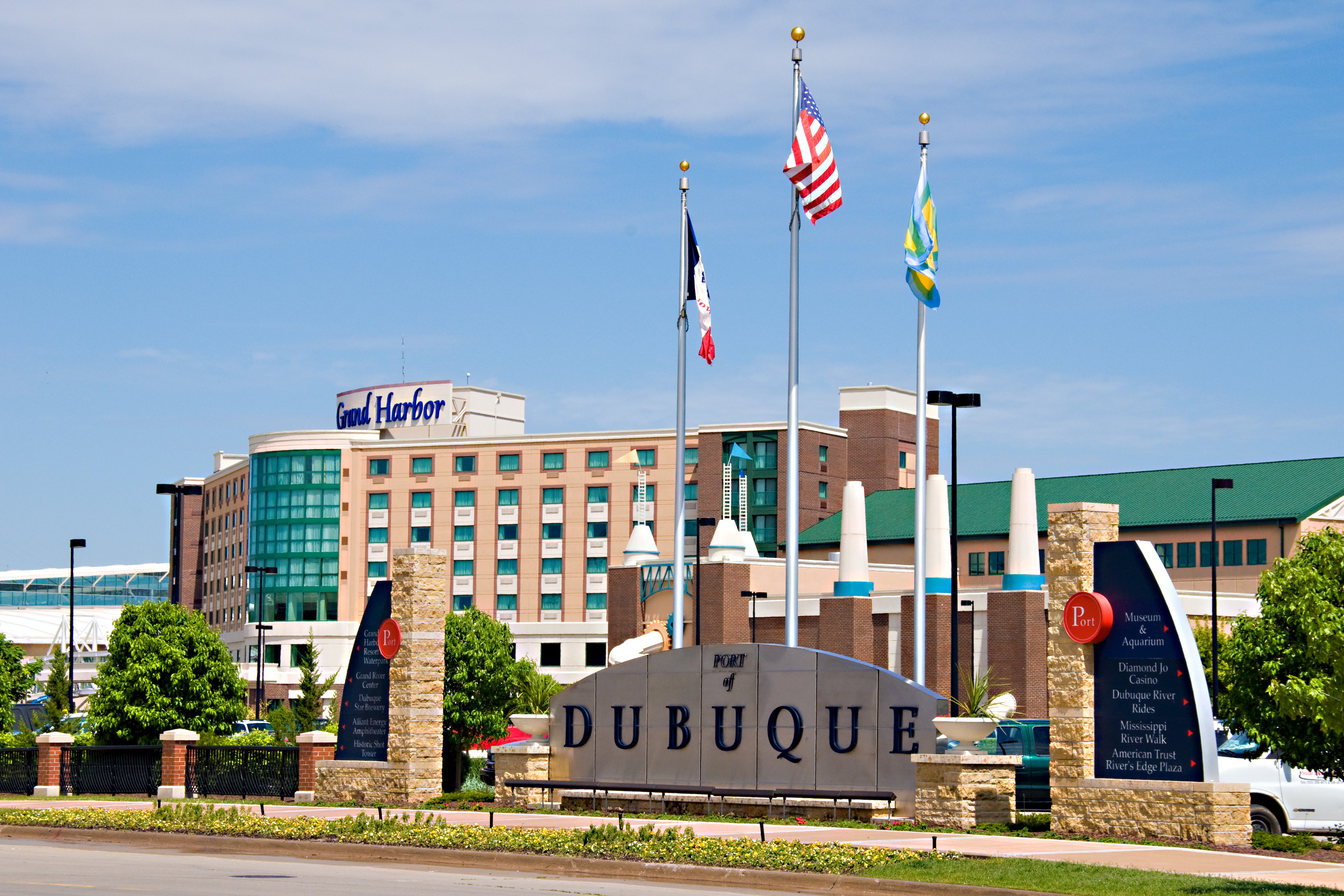 The Port of Dubuque sign with the The Grand Harbor Resort and Indoor Waterpark in the background, in Dubuque, Iowa.